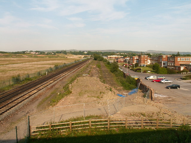 The site of Euxton railway station and the Royal Ordnance Factory, Lancashire. In the heyday of the surrounding Royal Ordnance factory, Euxton (pronounced x-ton not youx-ston) station was heavily used by workers travelling to and from work from the surrounding towns of Leyland and Chorley. The Royal Ordnance management offices are still present at the right of the picture and form a business park (now called Xton business park [groan]), the factory covered the whole area to the left of the picture. The station itself has been demolished (centre of the picture), although there is talk about building a new station here.